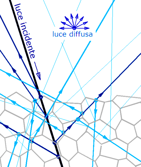 General mechanism of diffuse reflection by a solid surface